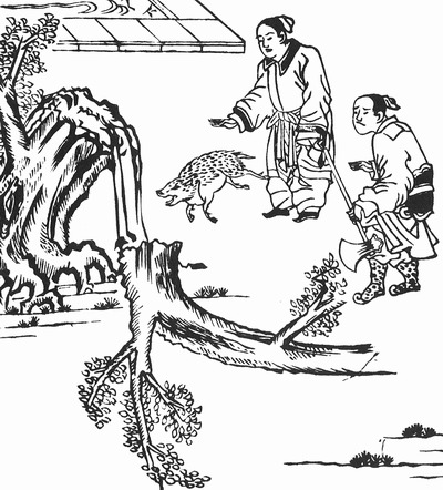 Penghou (Hōkō, a dog-like tree spirit from China) from the Kokon Hyaku-monogatari Hyōban